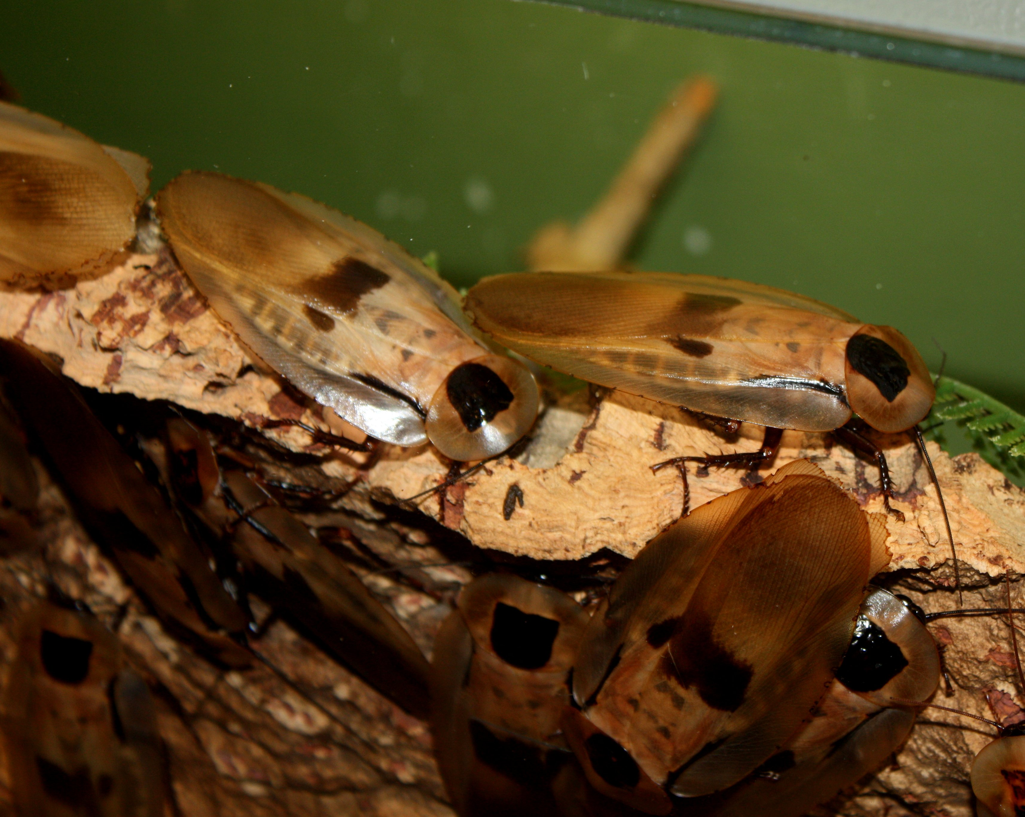 Giant Cockroach "Blaberus giganteus" at the Cincinnati Zoo